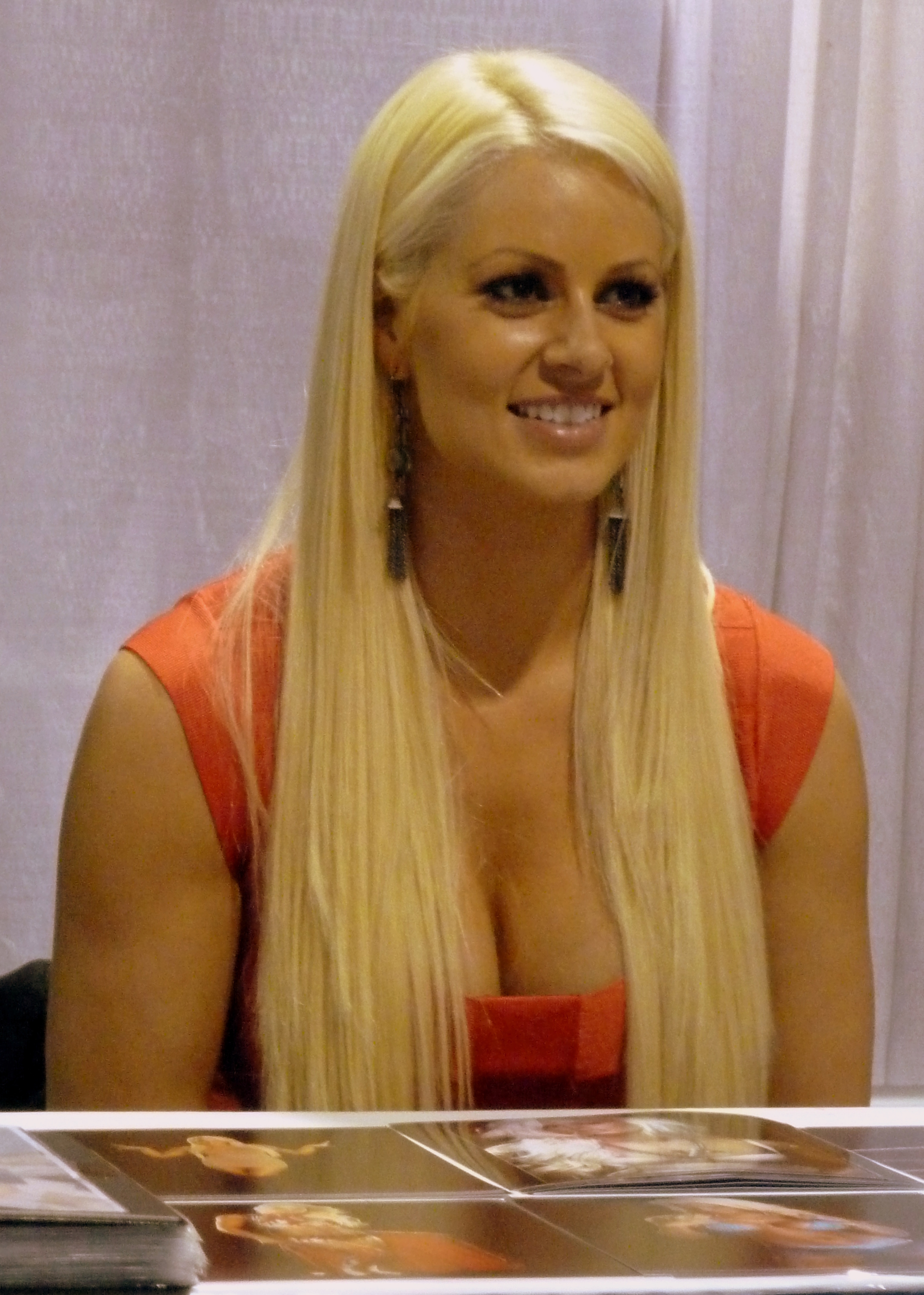 Maryse Ouellet 01 Guests at Wizard World Chicago 2012.